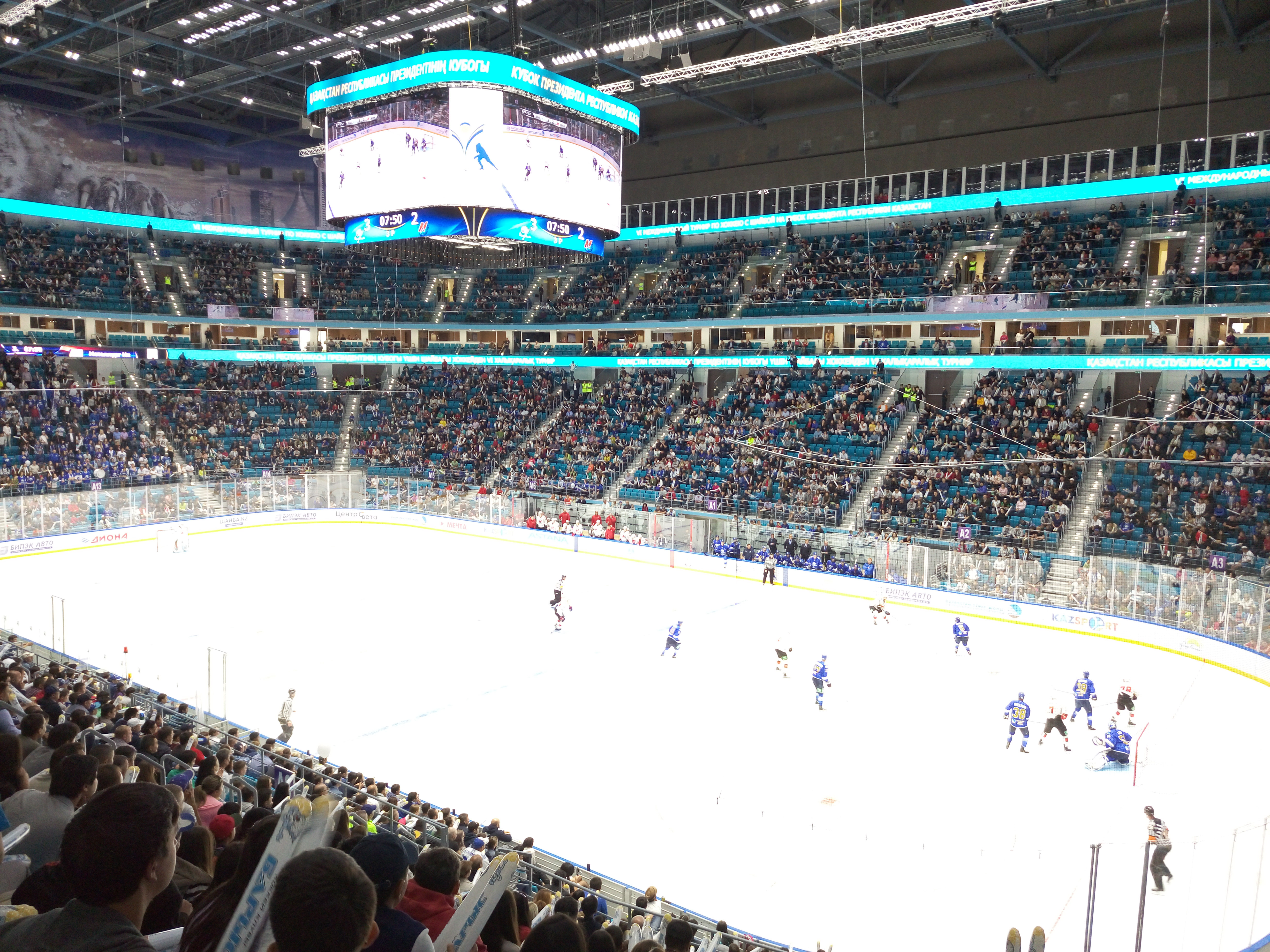 Barys Arena during the match Mettalurg Nk v. Barys at the 2015 President of the Republic of Kazakhstan's Cup.